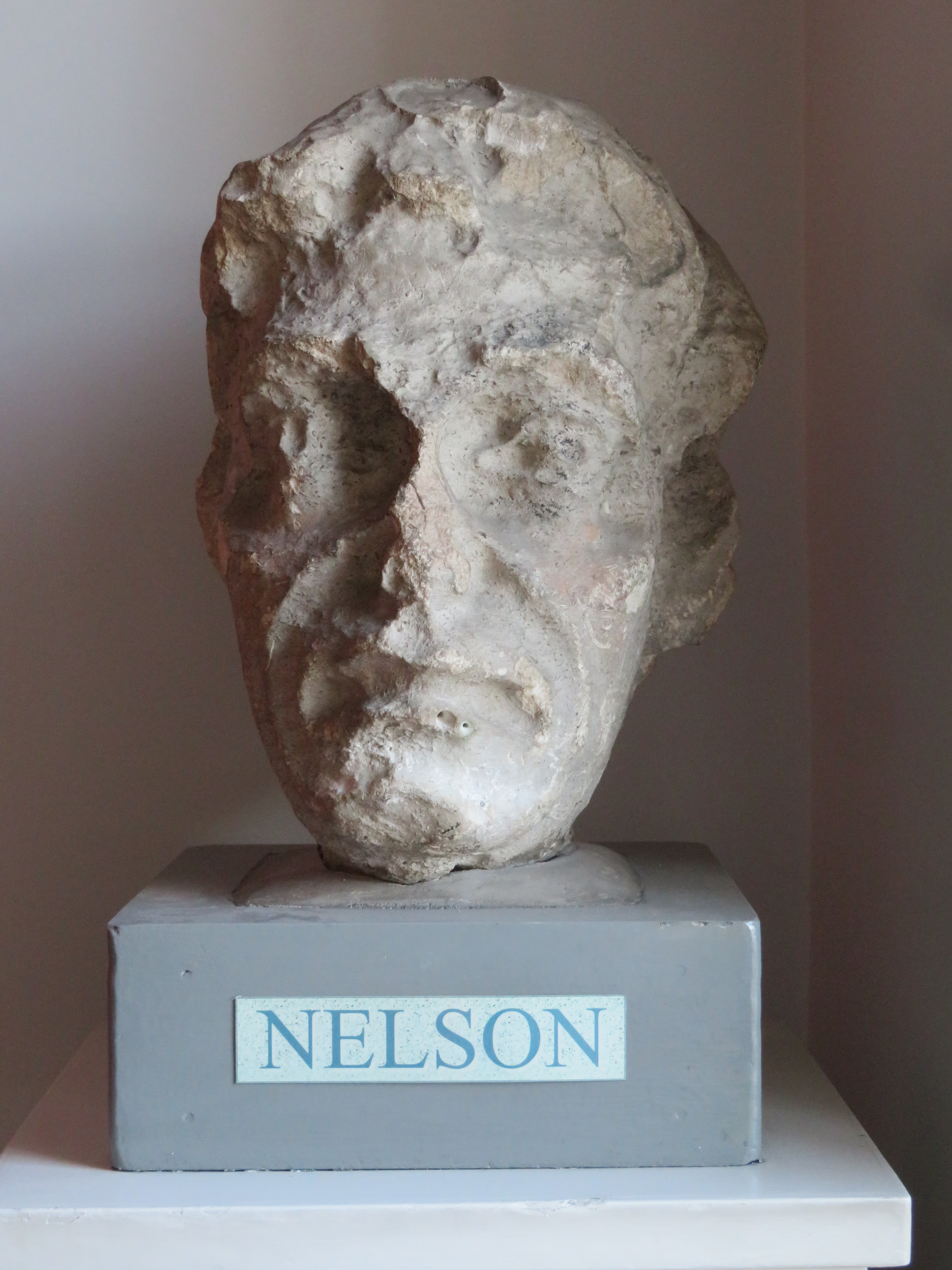 The head from the statue of Horatio Nelson from the former Nelson's Pillar in Dublin. The pillar was destroyed by a terrorist bomb on 8 March 1966. The head has been on display since 2005 in the research room on the first floor of the Dublin City Library and Archive (formerly The Gilbert Library) on Pearse Street in Dublin.